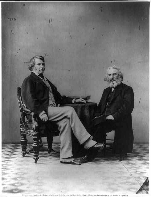 Portrait of Senator Charles Sumner and Henry Wadsworth Longfellow